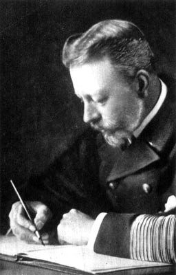 "PRINCE HENRY OF PRUSSIA, In Supreme Command of the German Battleship Fleet. (Photo from Bain.)"